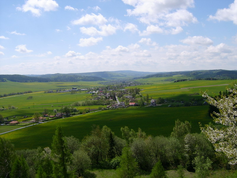 Nízký Jeseník Mts., Czech Republic. A view of Moravskoslezský Kočov and Valšov villages and road towards Olomouc.